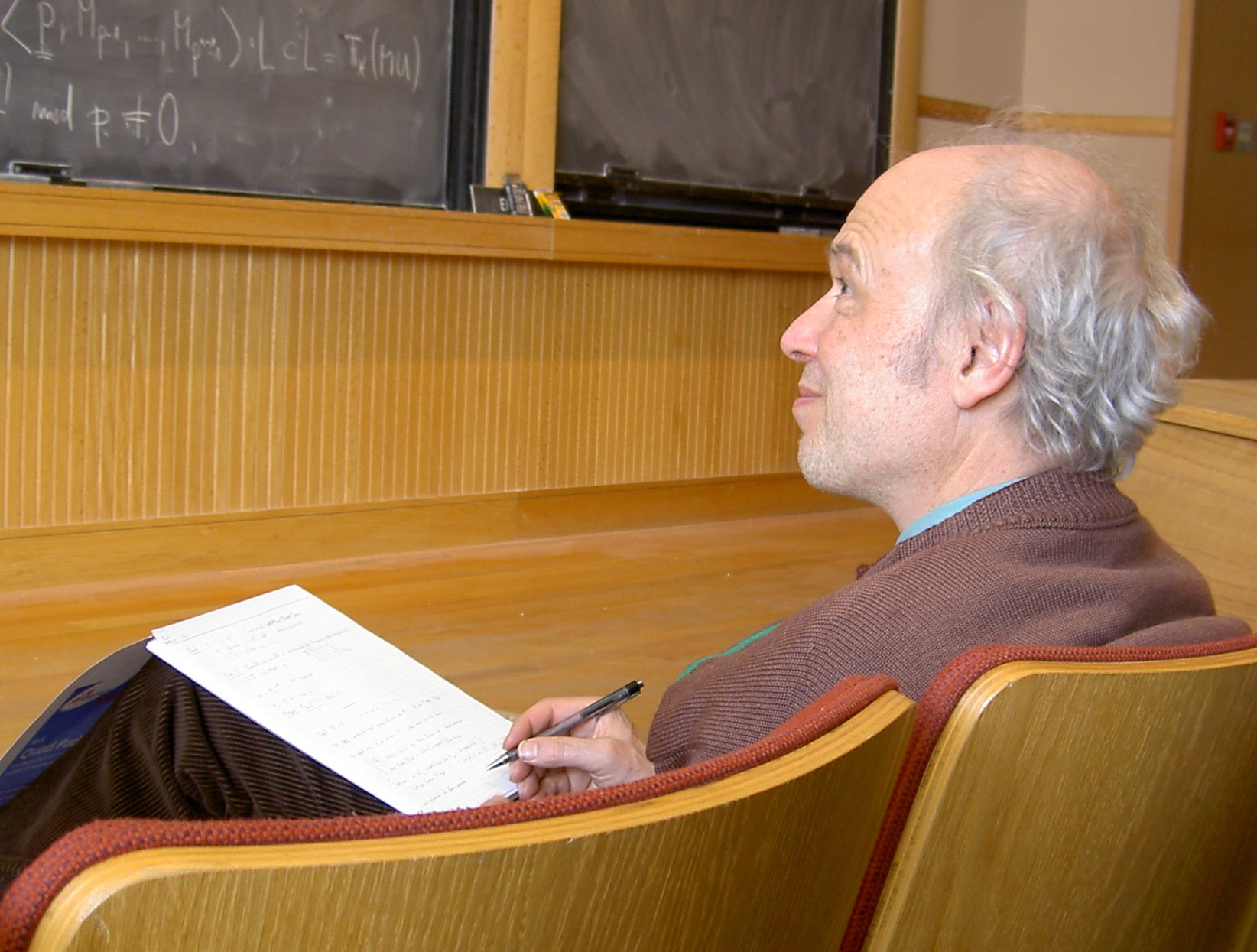 Pierre Deligne (born 3 October 1944), Belgian mathematician, at present member of the IAS, Princeton. (private photo, March 2005, IAS, Princeton)